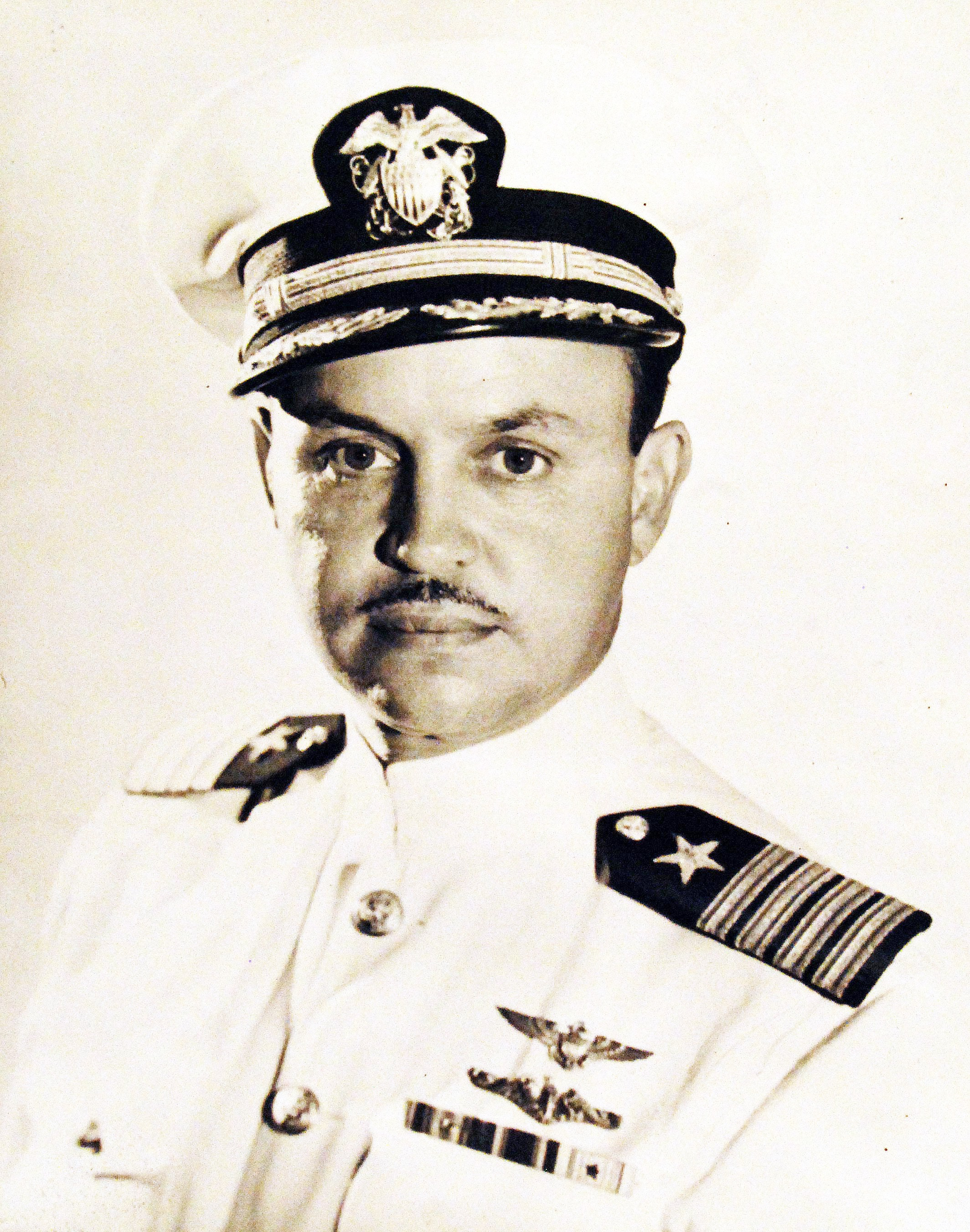 Official portrait of Captain Hugh H. Goodwin, USN as Commanding officer of escort carrier USS Gambier Bay (CVE-73), 1944. Official U.S. Navy Photograph, now in the collections of the National Archives. (2015/03/04).